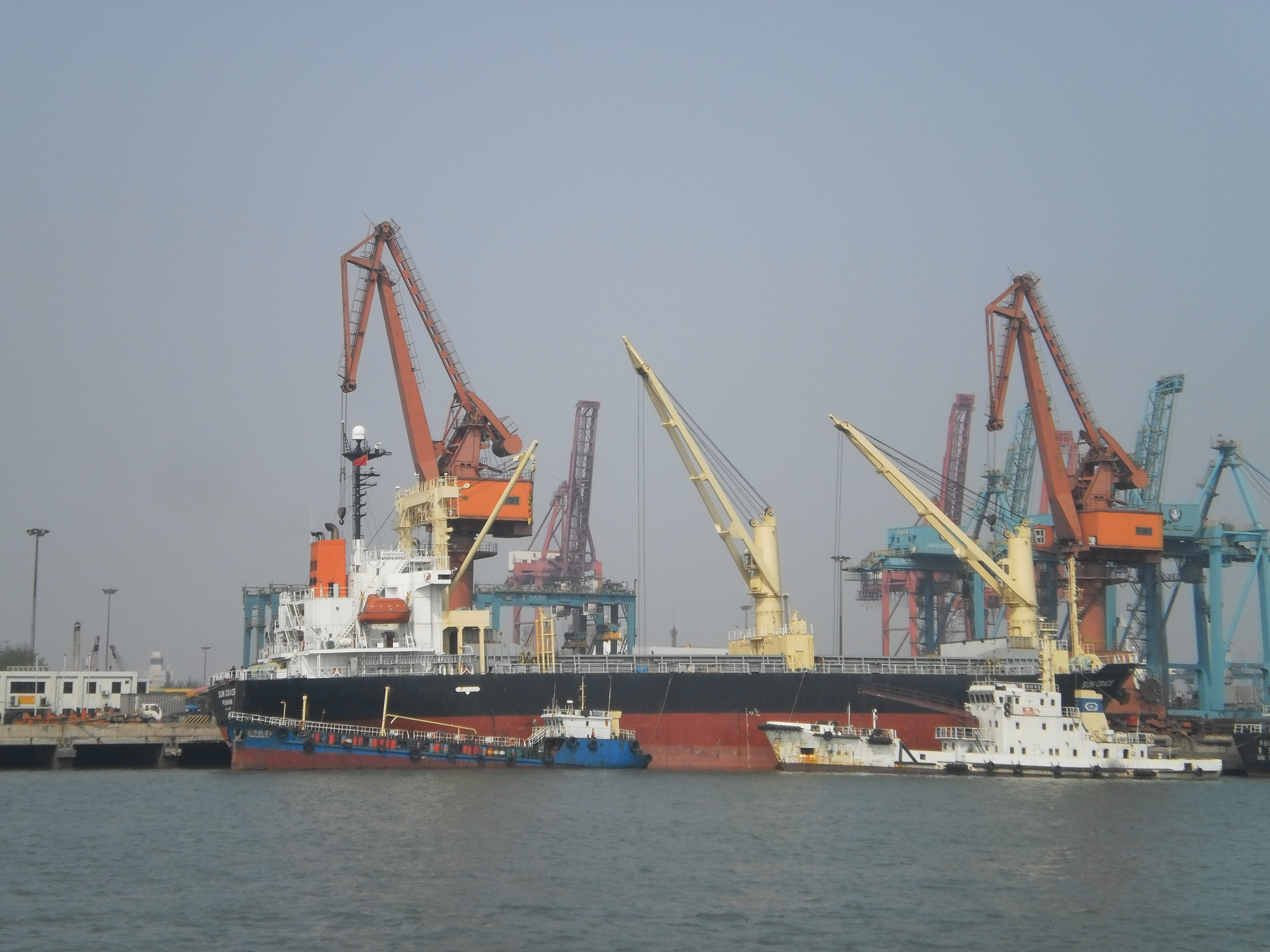 The water supply barge "Jingongshui 1" (white) and the oil supply barge "Yuanhua gongshui 5" (blue) resupplying the freighter "Sun Grace" at the First Stevedoring Company wharf, Tianjin Port